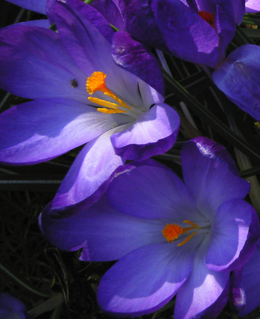 Closeup of crocuses in early afternoon light.